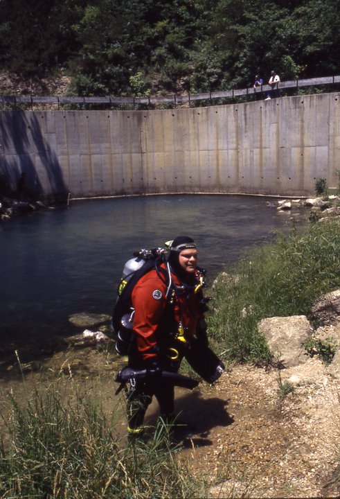 a cave diver exiting the water after a dive into roubidoux cave system